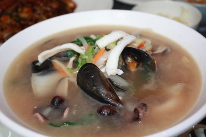 ulmyeon (noodles in thick broth)